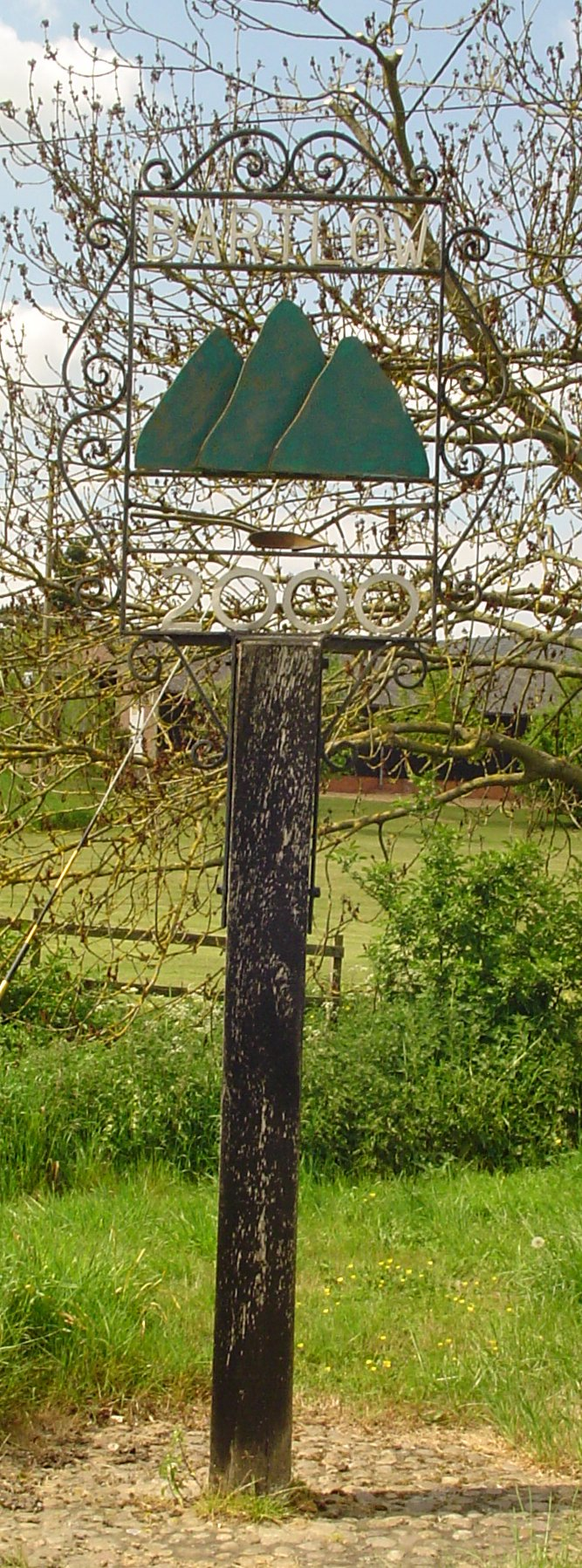 Signpost in Bartlow